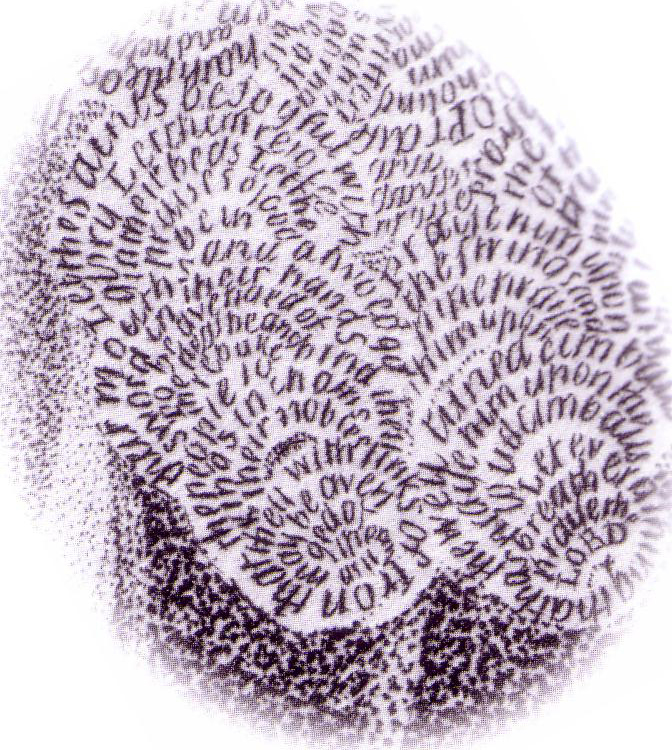 Close up of Mathew Buchingers self portrait showing the detail of the lords prayer embedded in the hair.